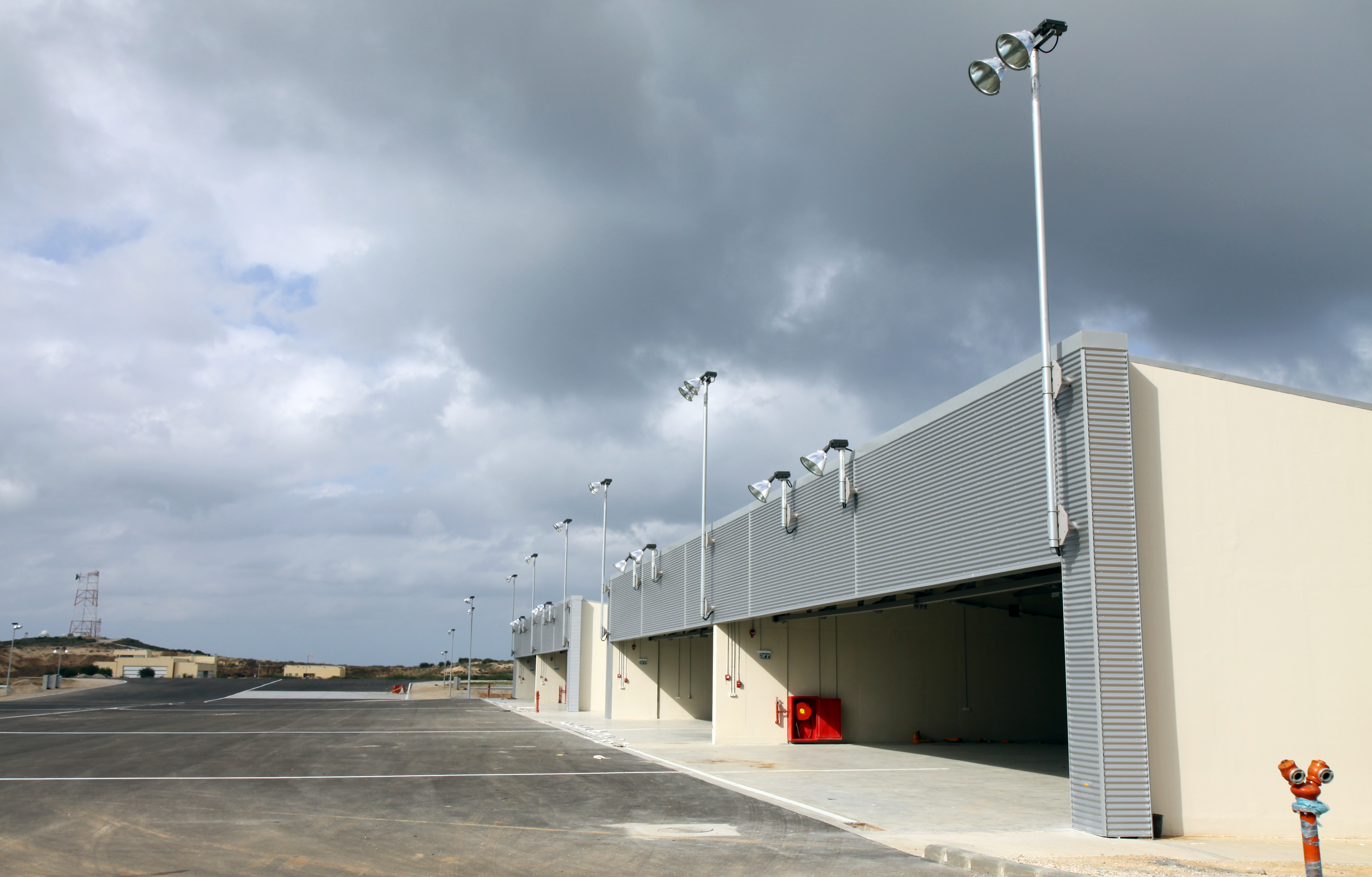 A $6.5 million project at Palmachim Air Base in Israel constructed by the U.S. Army Corps of Engineers Europe District.